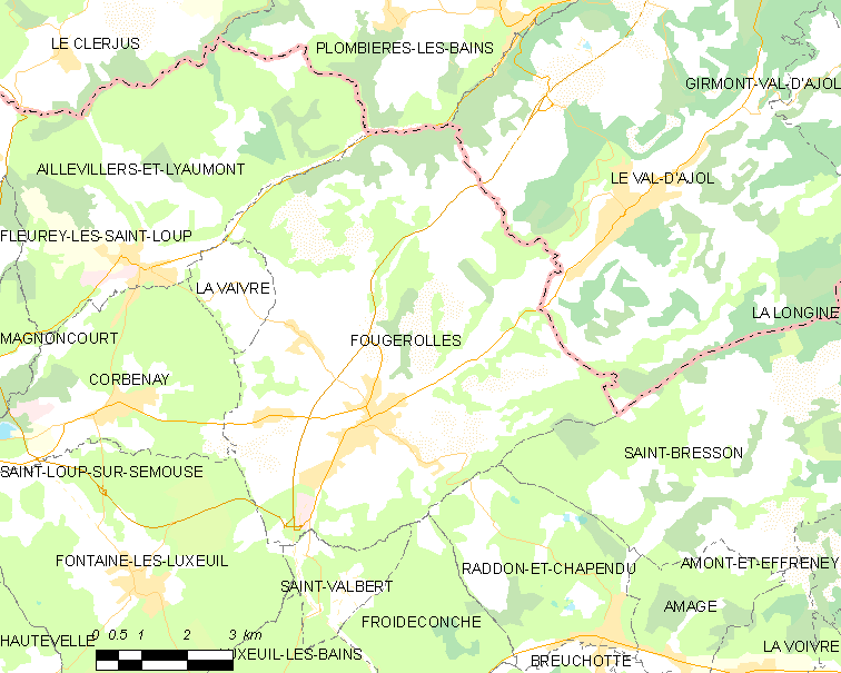 Map of French municipality